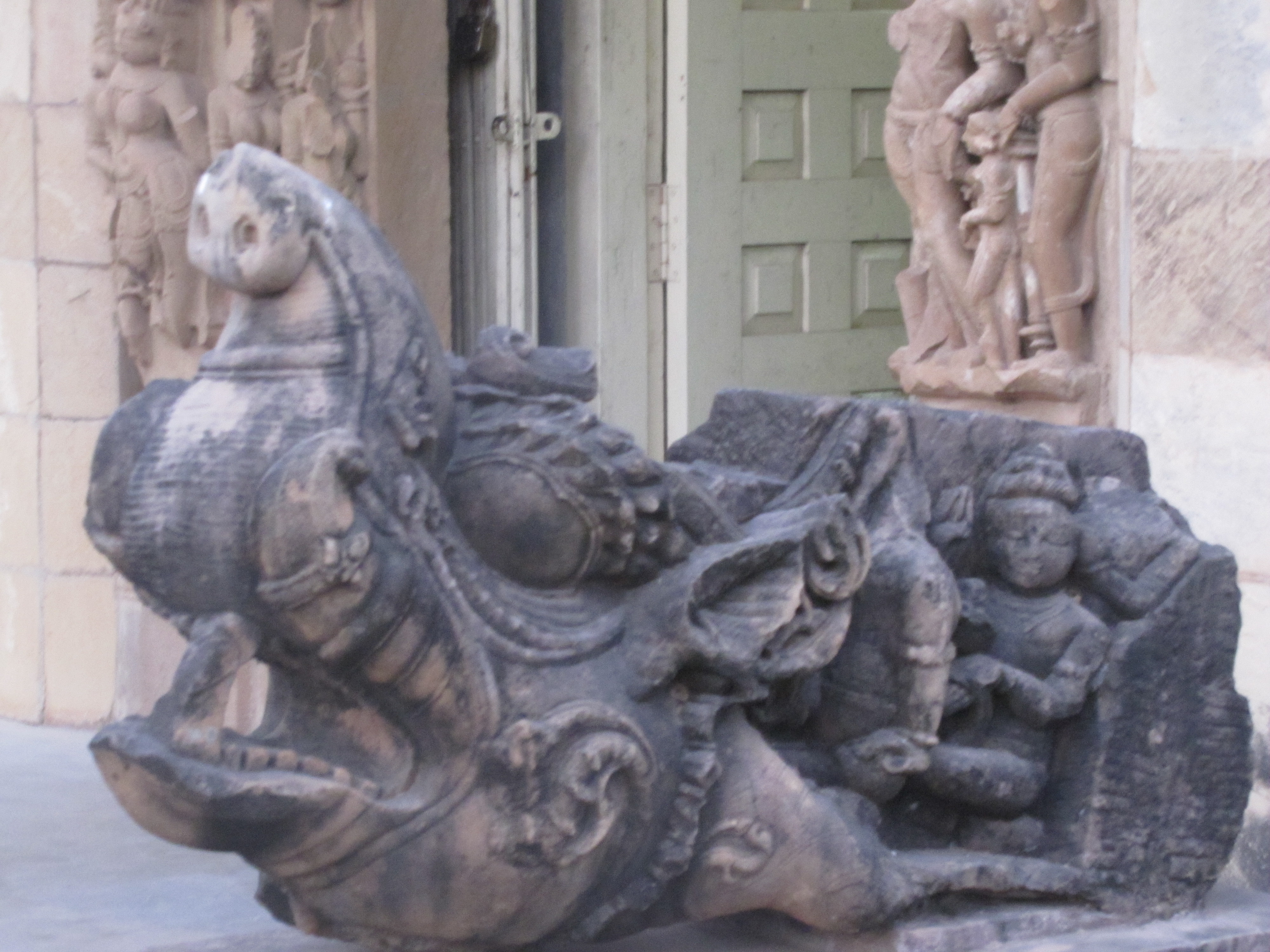 Makara (Capricorn) Sculpture. It is located on the doorway of Jain Museum , Khajuraho India. There are two such sculpture on either side of the stairs.